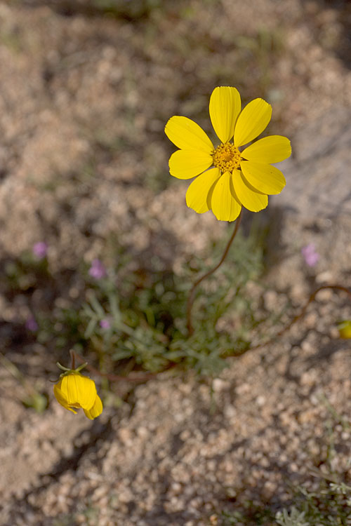 Bigelow Coreopsis